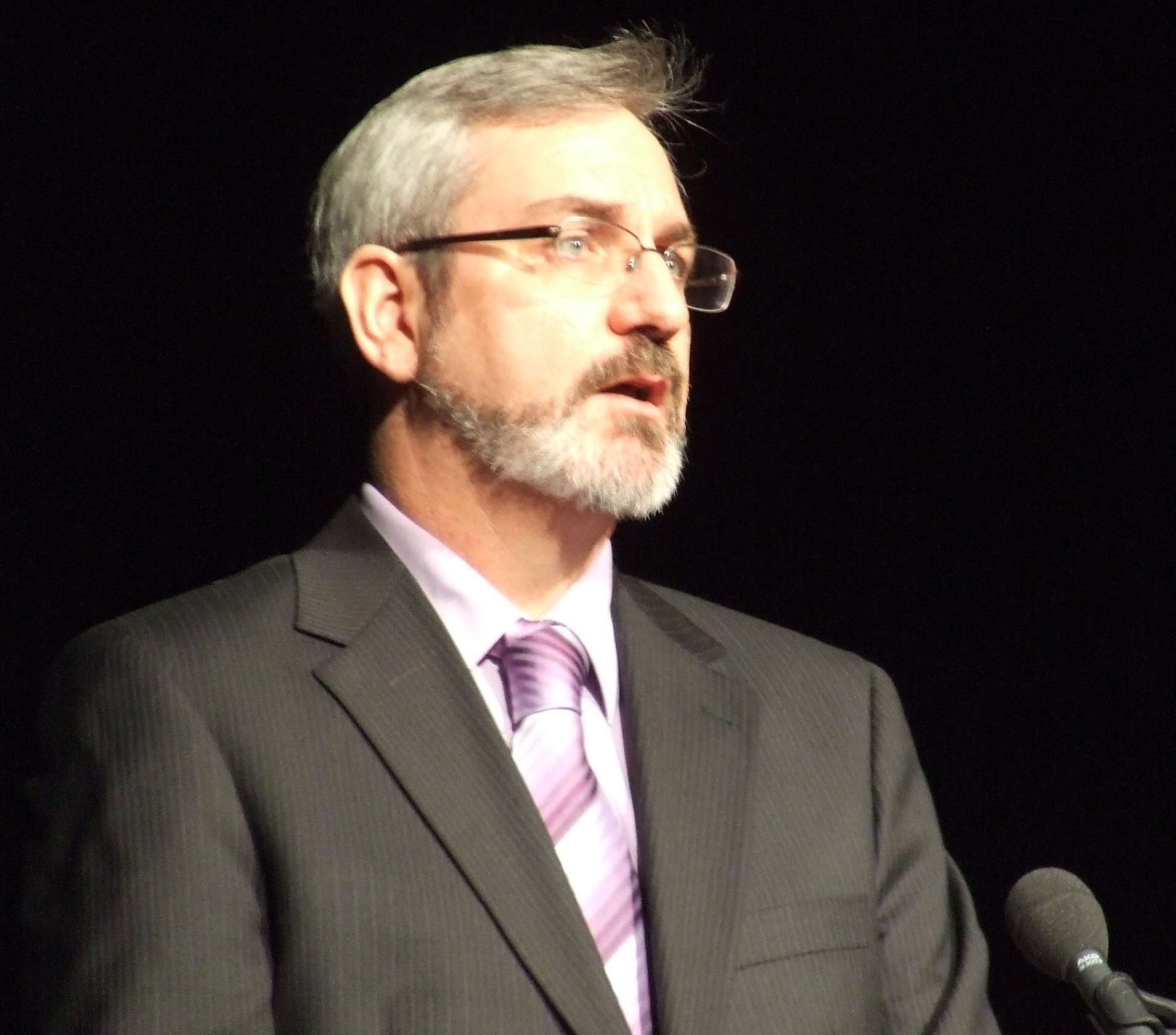 Senator Andrew Bartlett launches his re-election campaign on July 8th 2007